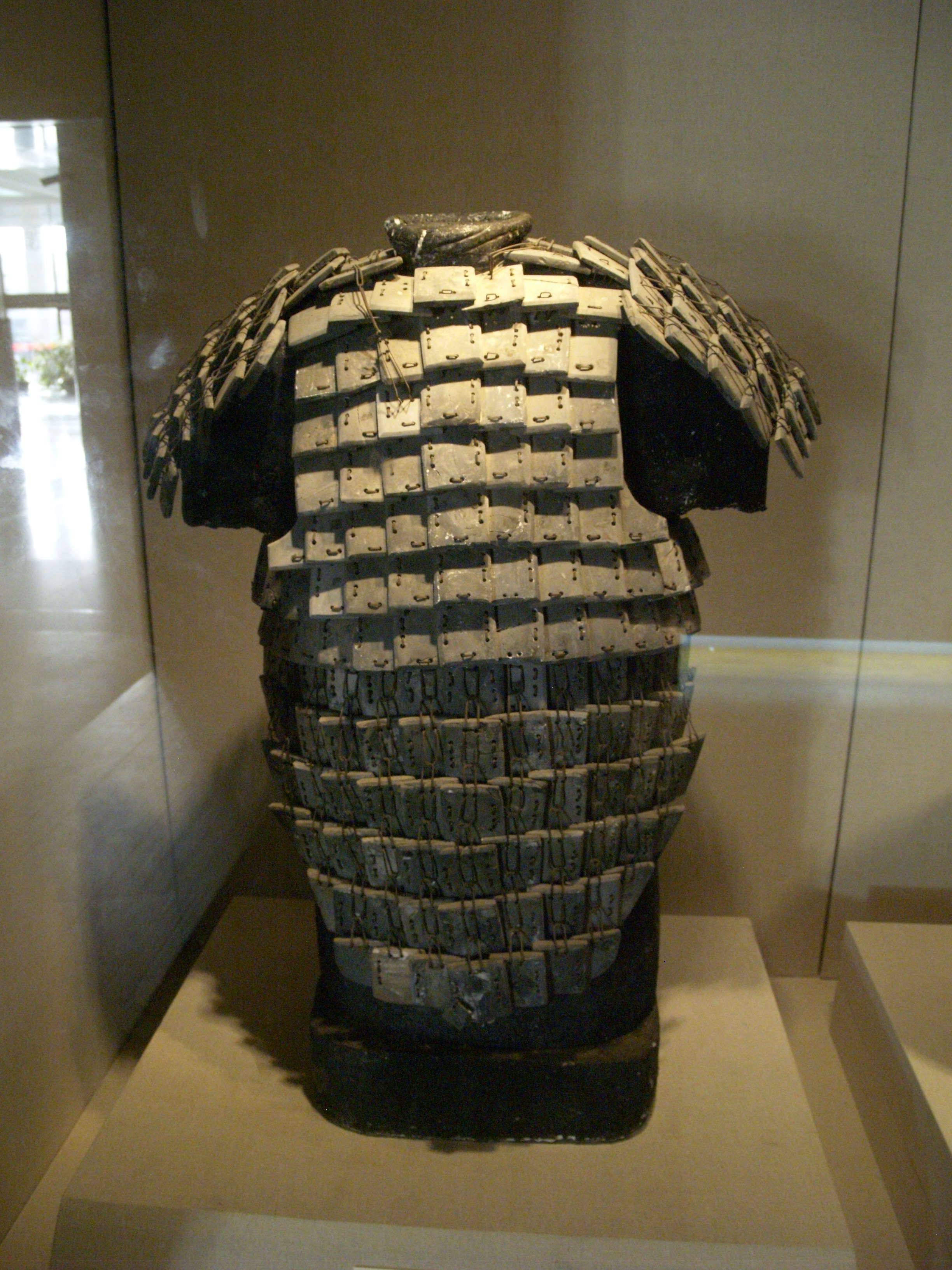 Qin Dynasty stone armour suit, Shaanxi History Museum Info provided by the museum below: Stone Armor Suit Qin Dynasty (221-207BC) Excavated from Qin Shihuang's mausoleum, Lintong District, Xi'an City Collection of Shaanxi Provincial Institute of Archaeology